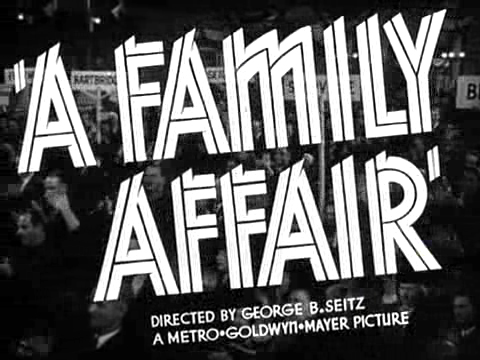 Cropped screenshot of the film title from the trailer for the film A Family Affair.